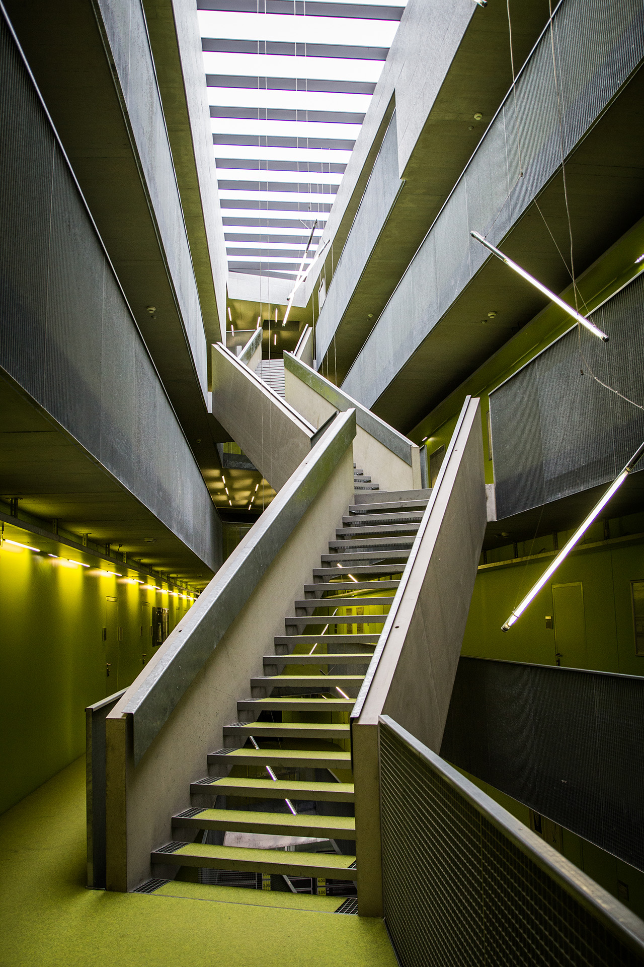 JKU Science Park - Indoor Picture